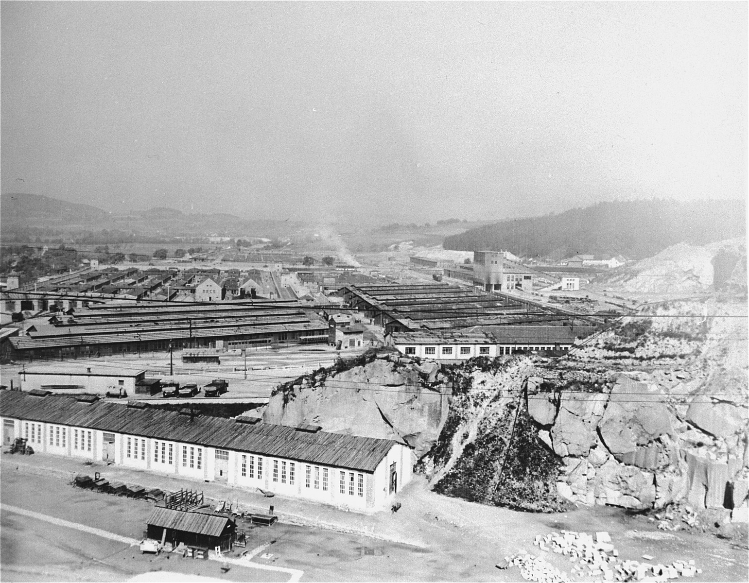 View of the Gusen I camp after liberation